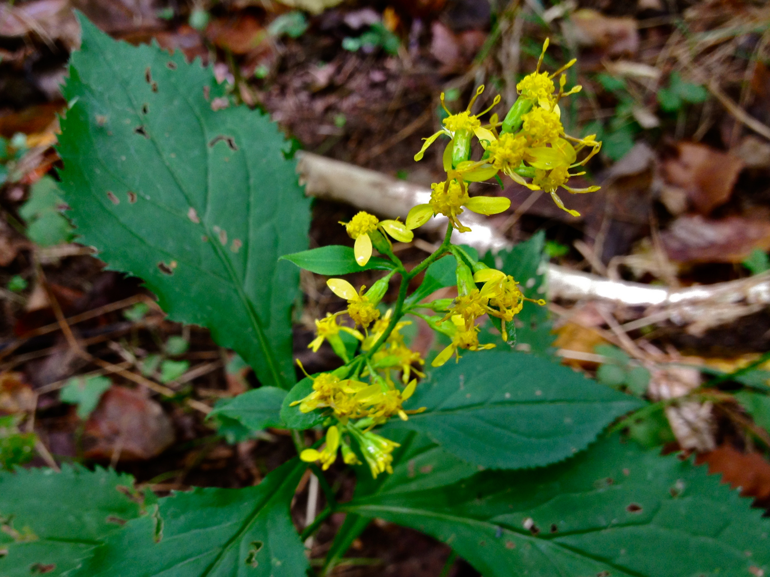 Photo of Solidago flexicaulis in flower. This is a native plant growing wild in the Chesapeake & Ohio Canal National Historic Park, in Montgomery county Maryland, USA. This species is a member of the Asteraceae family.